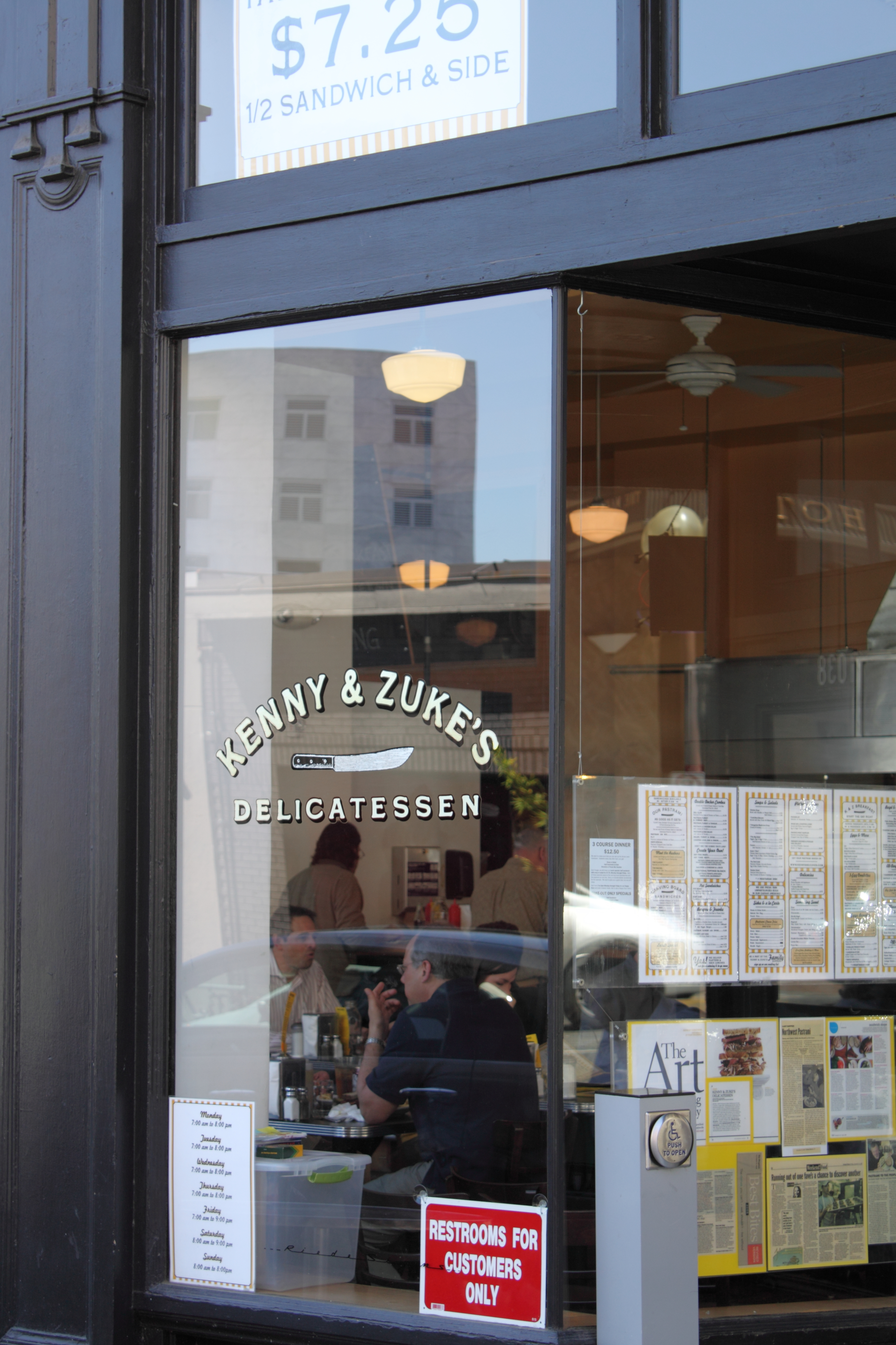 Photograph of the entrance to Kenny & Zuke's Delicatessen in Portland, Oregon. Taken in front of the deli, 1038 SW Stark St, Portland OR USA.